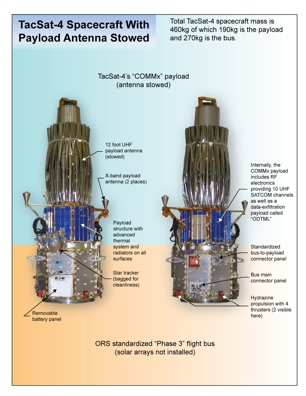 System overview of TacSat-4